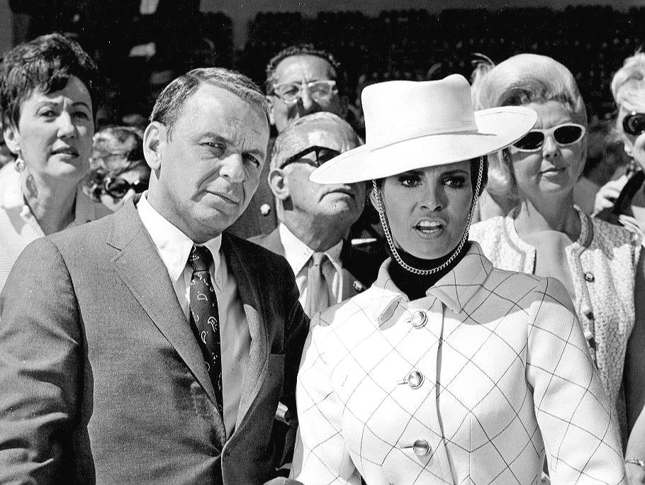 Photo of Frank Sinatra and Raquel Welch from the film ‘’Lady in Cement’’.